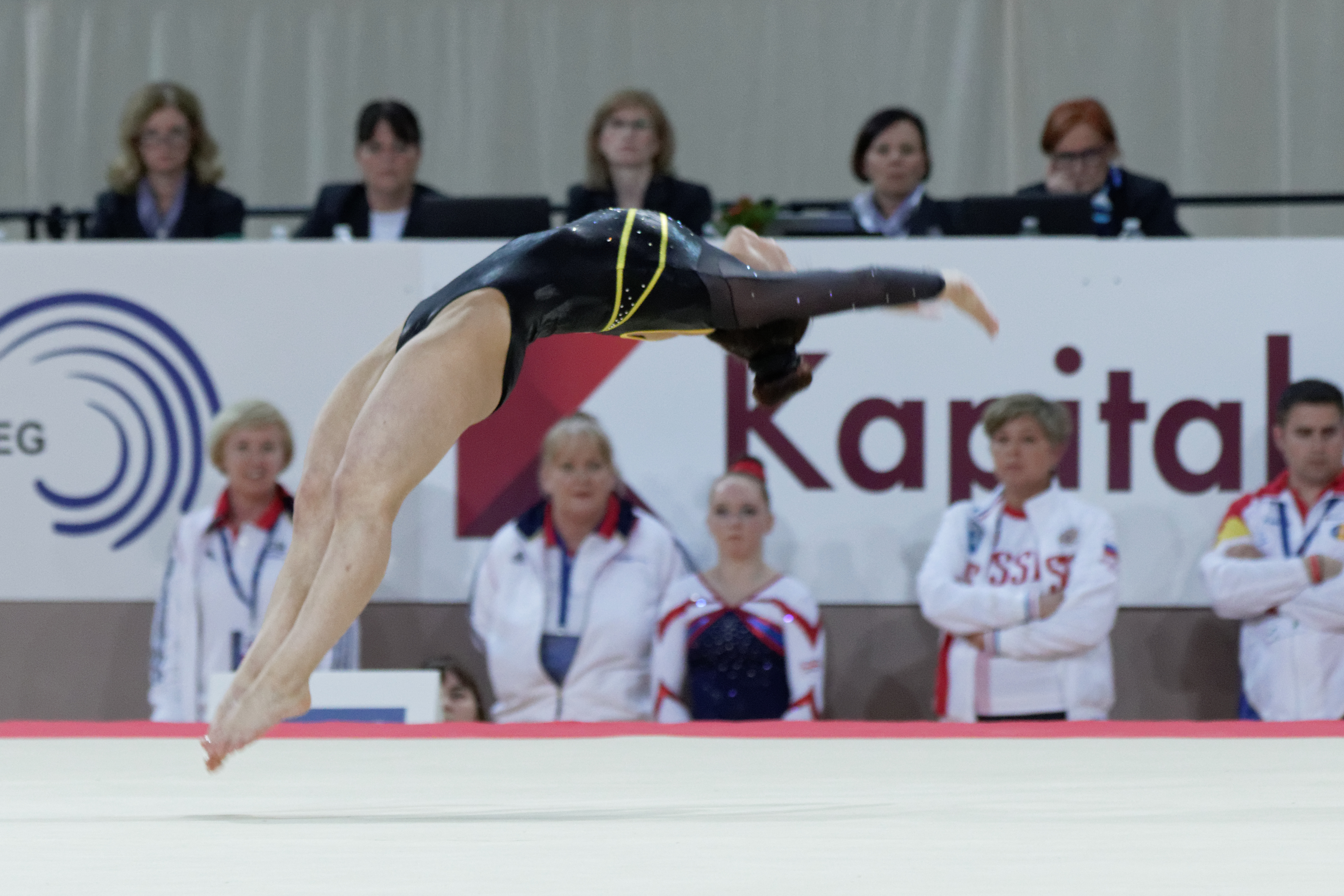 2015 European Artistic Gymnastics Championships.